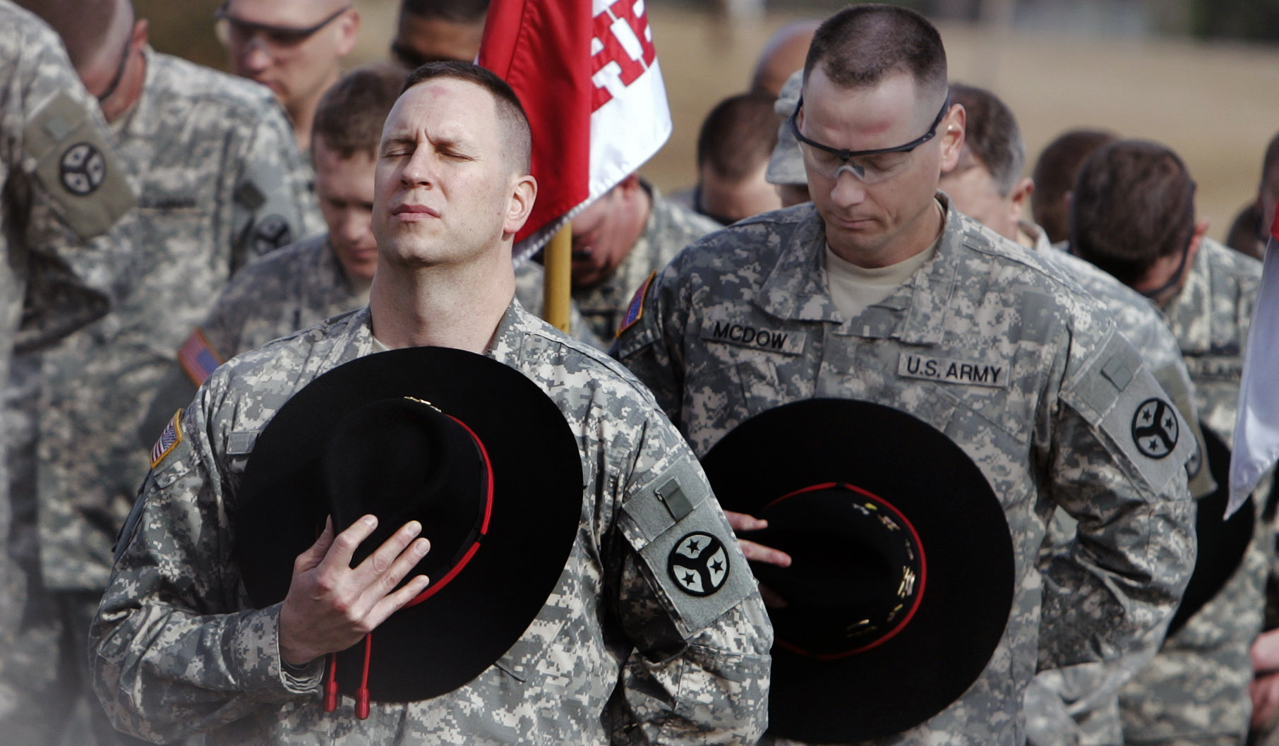 U.S. Army Soldiers of the 278th Armored Cavalry Regiment, Tennessee Army National Guard, held a memorial service on Jan. 28 to honor 14 fallen comrades who gave their lives while serving with the 278th during their deployment to Iraq 2004-2005 as part of Operation Iraqi Freedom III. Members of every troop of the 278th were in ranks on the north side lawn of the Camp Shelby museum for a ceremony and the unveiling of a granite monument to the fallen heroes of the Regiment. The ceremony was opened with the invocation led by regimental chaplain, Capt. Ed Coy. This was followed by the national anthem performed by 2nd Lt. Tracie Muniz of the Regiment's 2nd Squadron. Regimental commander Col. Jeff Holmes and former commander Col. Dennis Adams spoke to more than 800 soldiers present for the dedication. Holmes, designed the granite monument and spoke of the history and tradition of the Regiment as well as the symbolic significance of aspects within the design. The 278th is currently training at Camp Shelby Joint Forces Training Center in Hattiesburg, Miss., for an upcoming deployment to Iraq. 278TH Armored Cavalry Regiment, Tennessee Army National Guard RSS Photo by Staff Sgt. Russell Klika Date: 01.28.2010 Location: Hattiesburg, US Related Photos